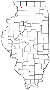 Category:Illinois city locator maps